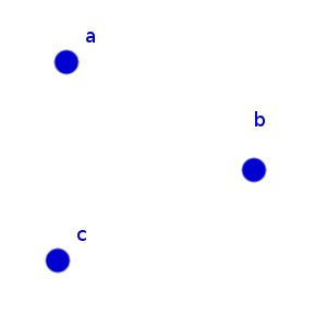 Null graph